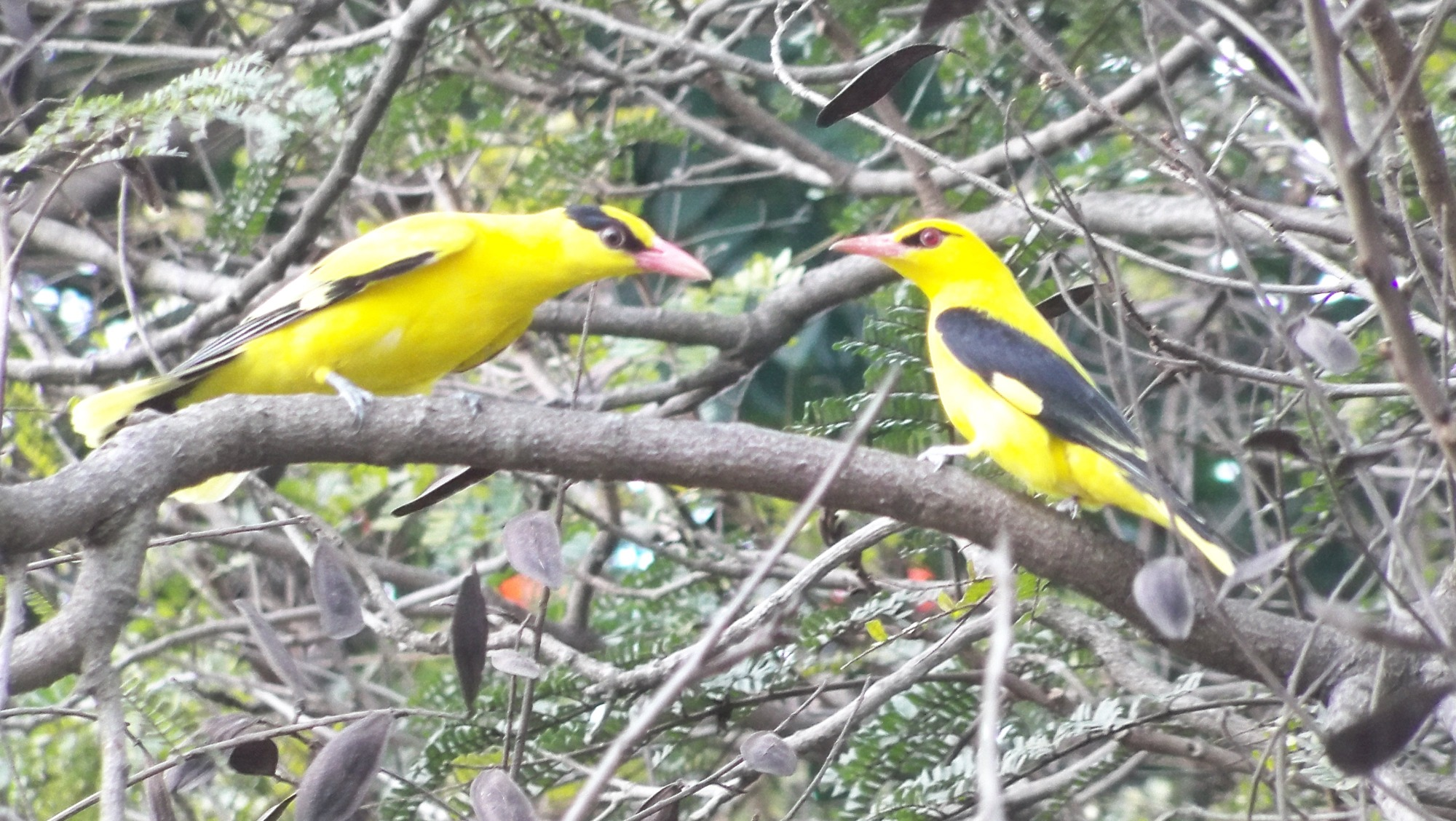 Black-naped Oriole (Oriolus chinensis) with Indian Golden Oriole (Oriolus kundoo) foraging and pecking/fighting together, Bangalore India.